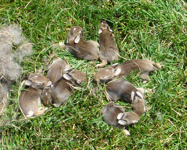 Eight newborn eastern cottontails (Sylvilagus floridanus)